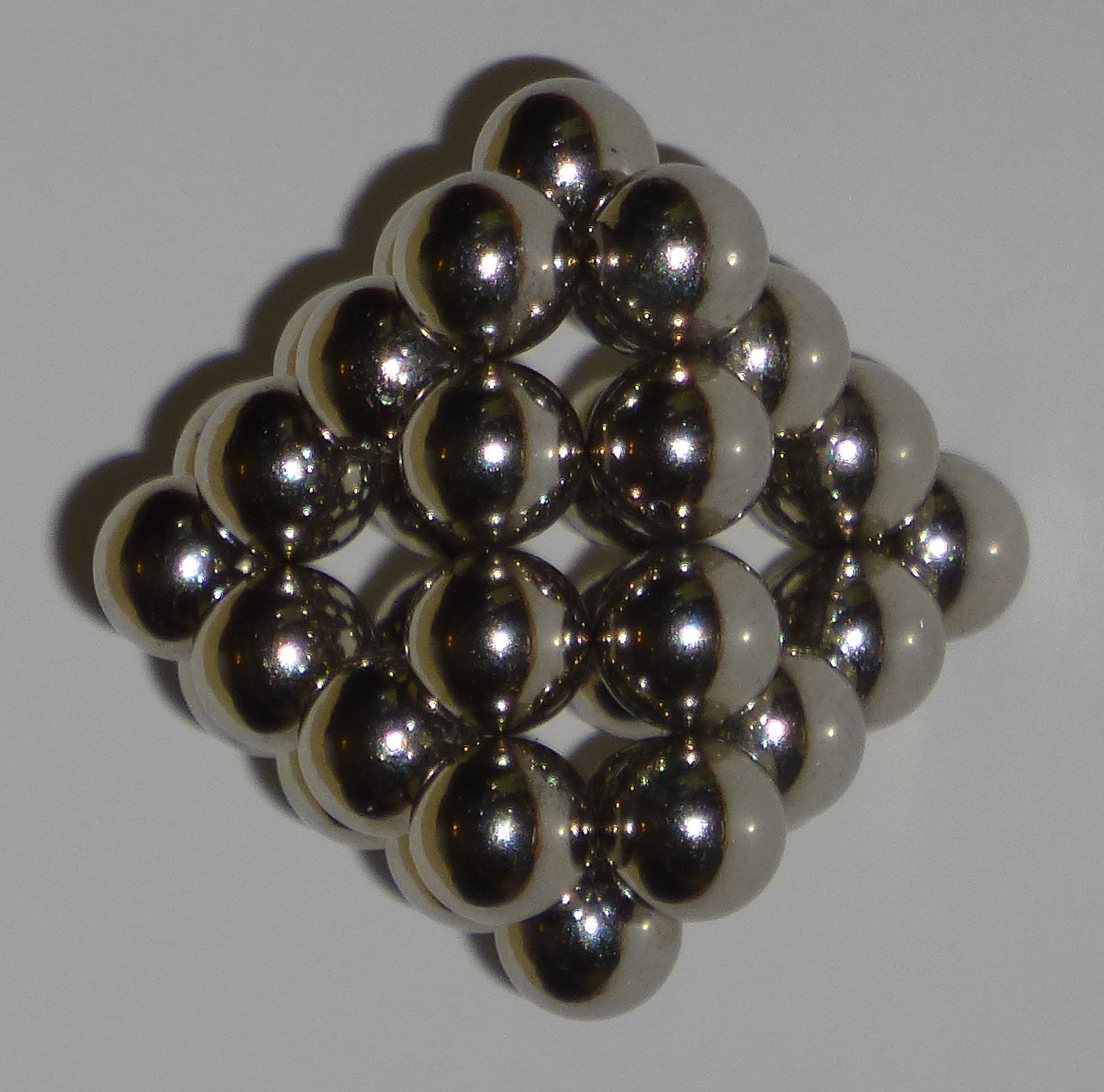 Neodimium